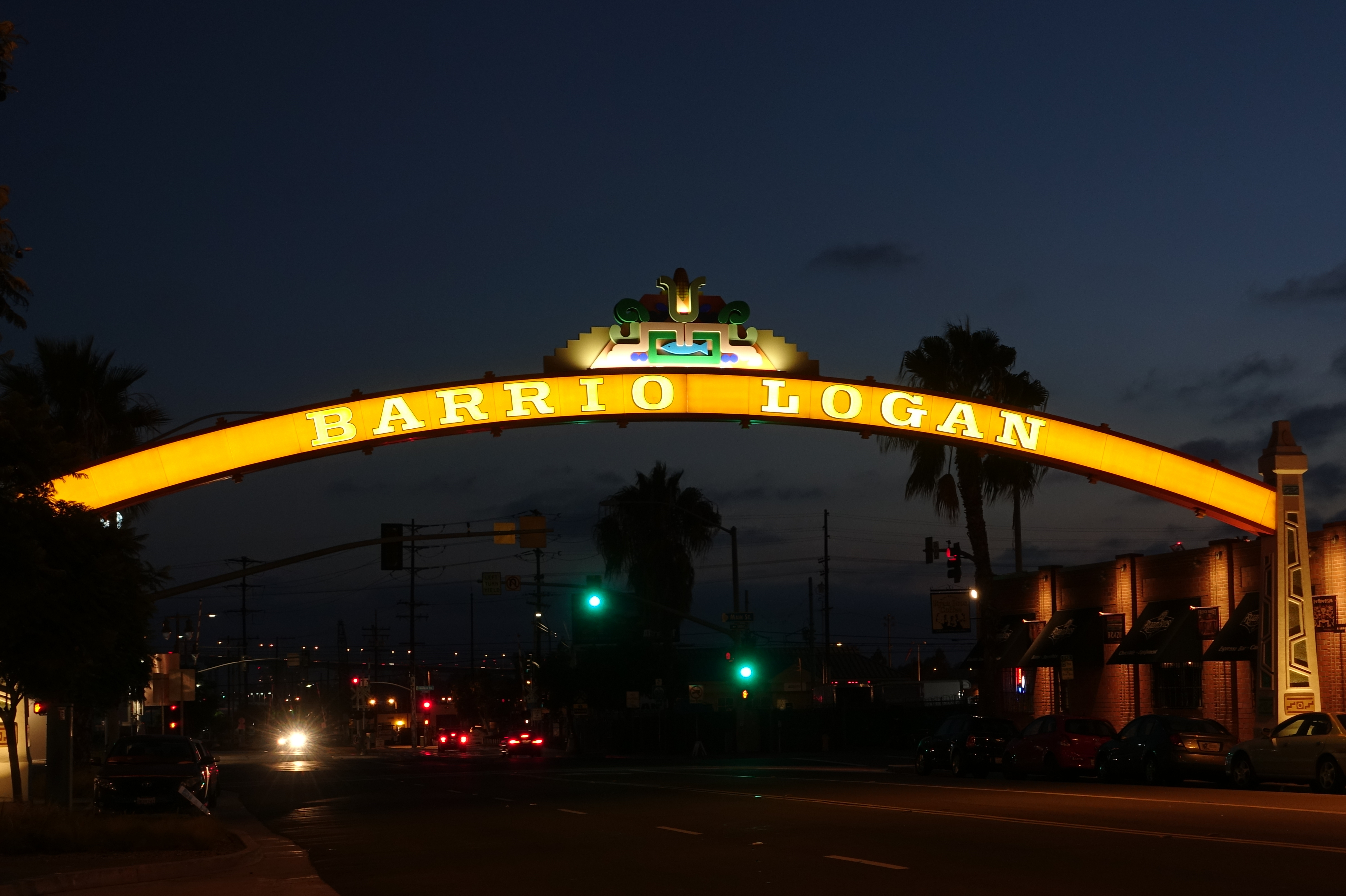 Early evening shot of Barrio Logan neighborhood sign, located near intersection of Cesar E. Chavez Parkway and Main Street, San Diego, California